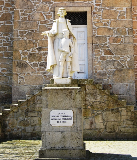 Estátua_do_Fundador.JPG